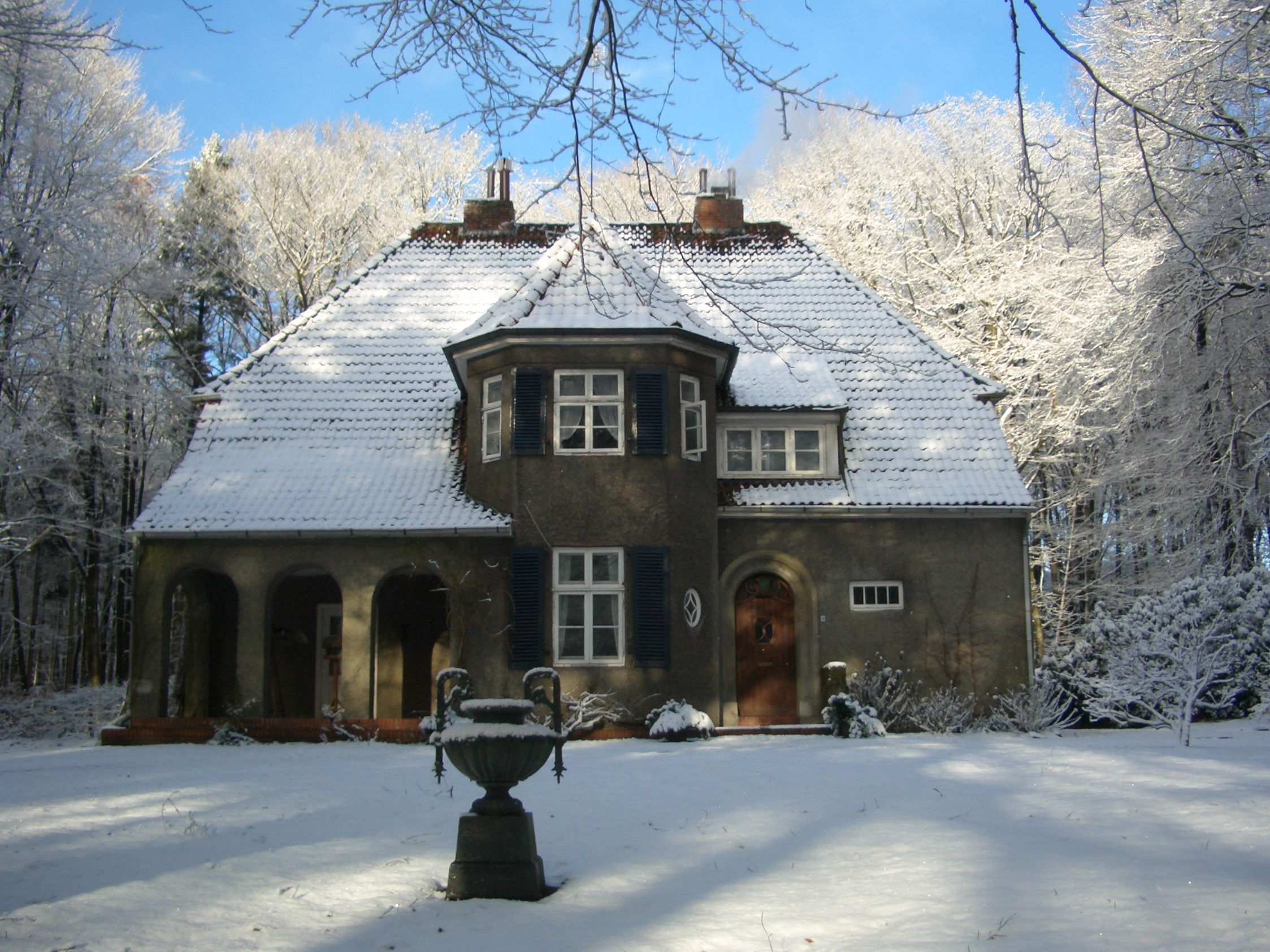 Haus Wittenborgh, Driftsethe, Germany